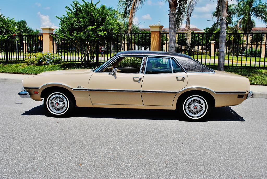 The Ford Maverick was a compact car manufactured from April 1969 to 1977 in the United States, Venezuela (first country outside the States to produce them), Canada, Mexico, and, from 1973 to 1979, in Brazil